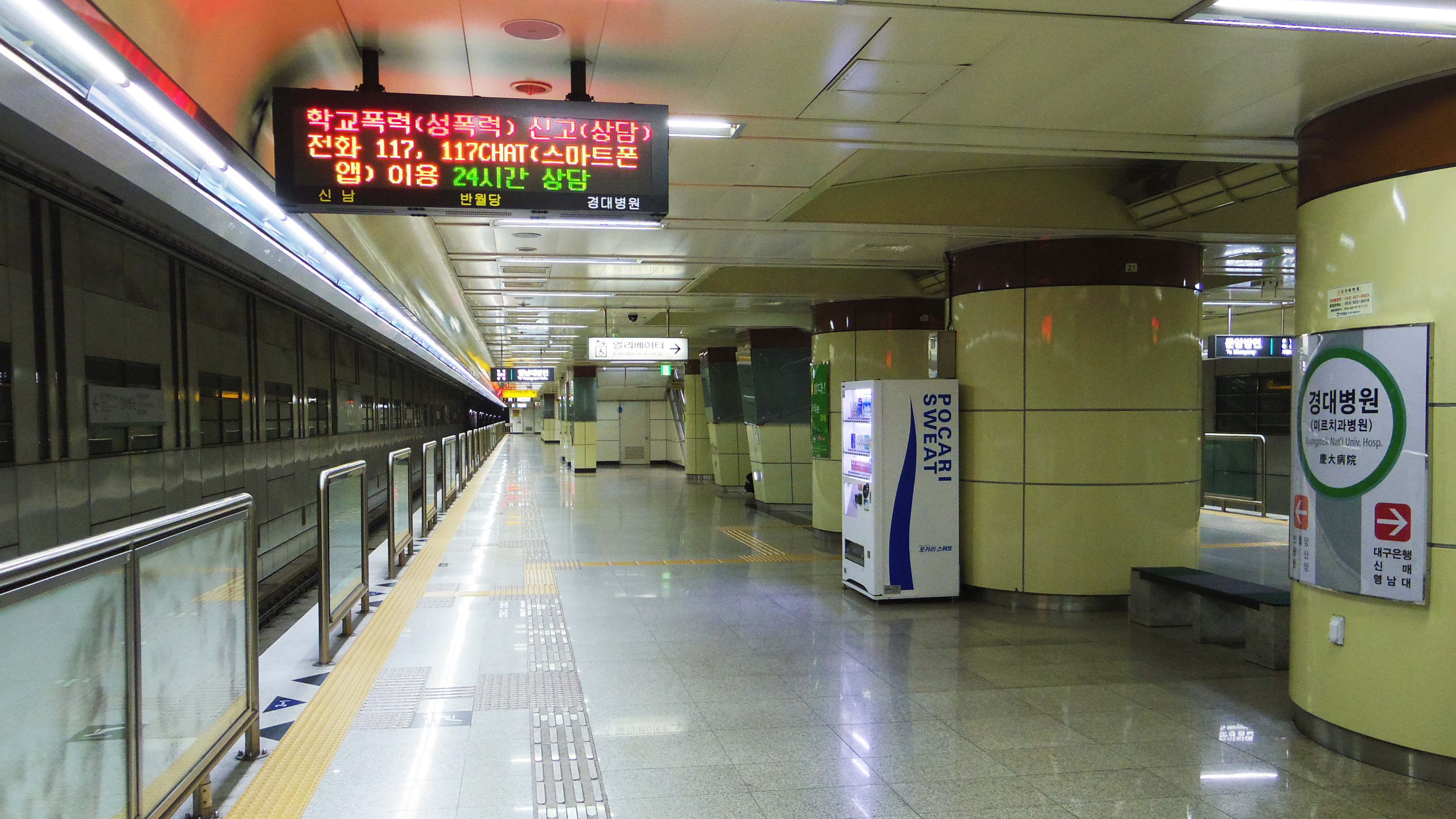 The platform at Kyungpook National University Hospital Station on the Daegu Metro Line 2